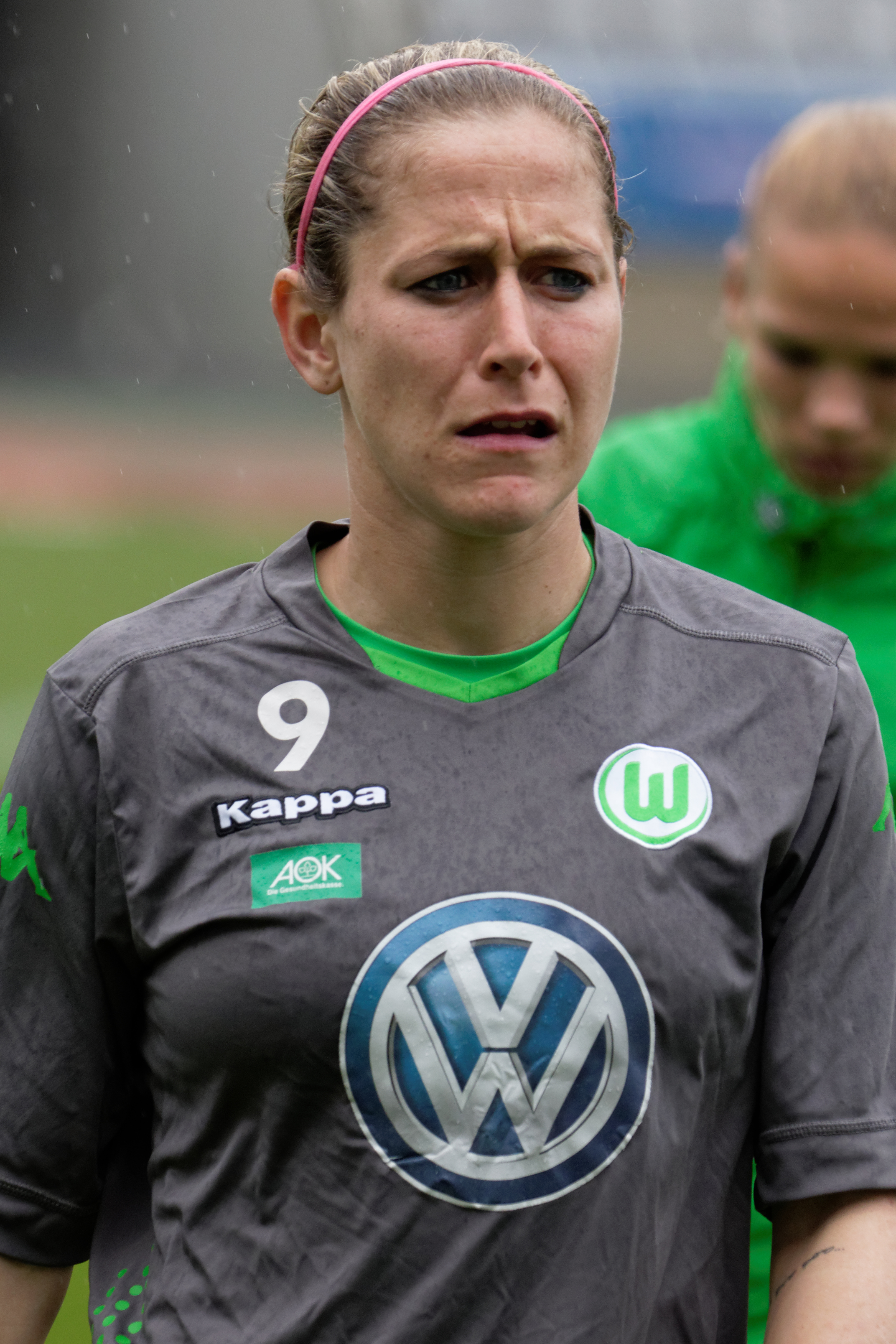 UEFA Women's Champions League, PSG - Wolfsburg, 26 April 2015.